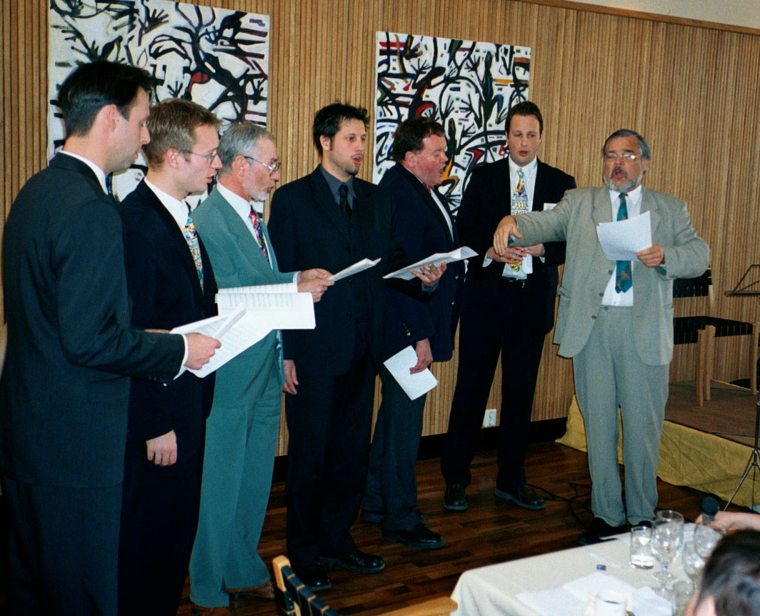 Swedish music critic, writer and singer Carlhåkan Larsén conducts a group of student singers from Lund during a performance before the litteray society "Fakirensällskapet".